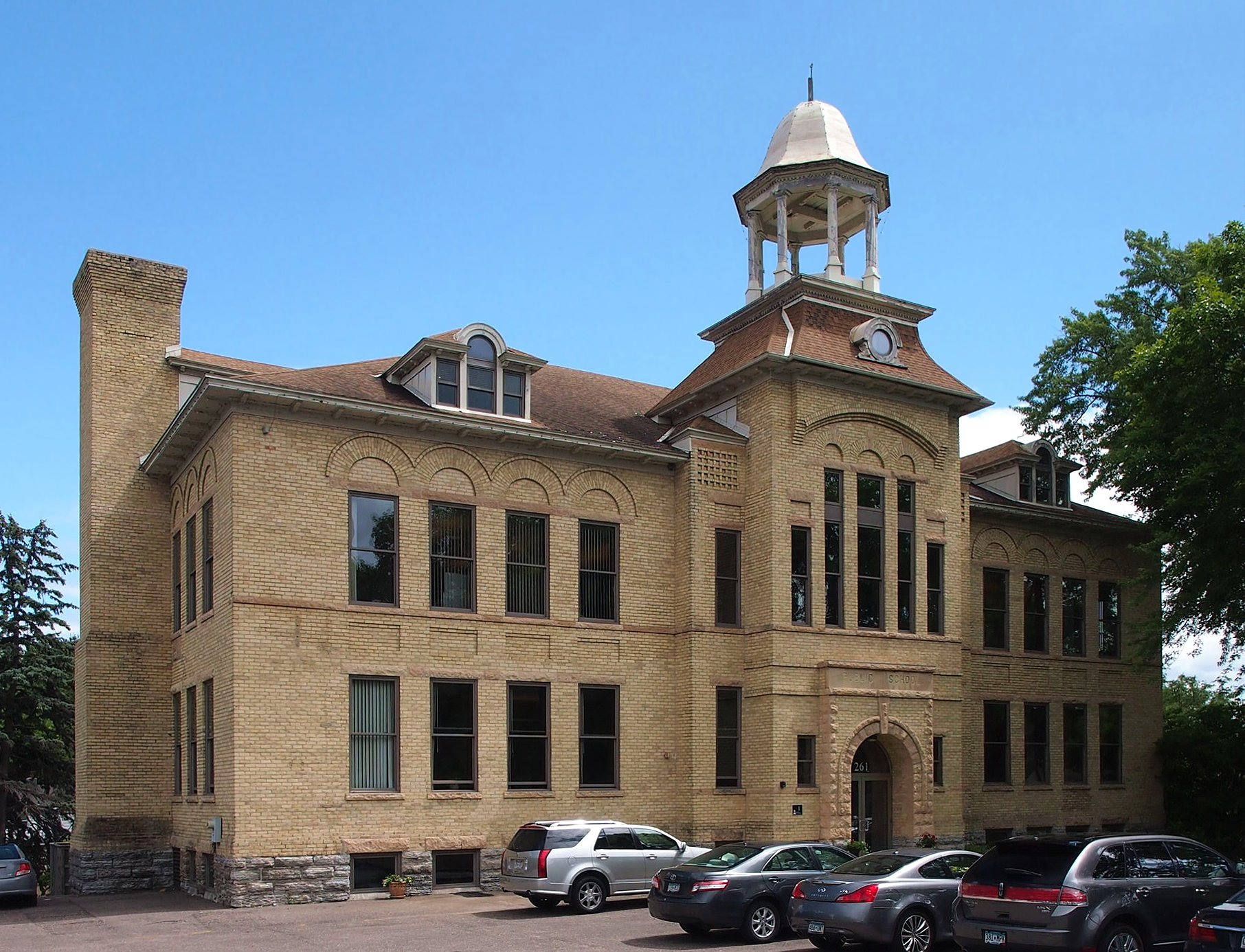 Excelsior Public School, 261 School Ave, Excelsior, Minnesota, USA. Viewed from the northwest.